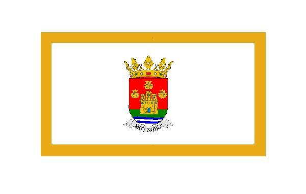 Flag of the city of Santiago del Estero, in Santiago del Estero Province of Argentina. On the centre, the coat of arms of the city designed in 1577.